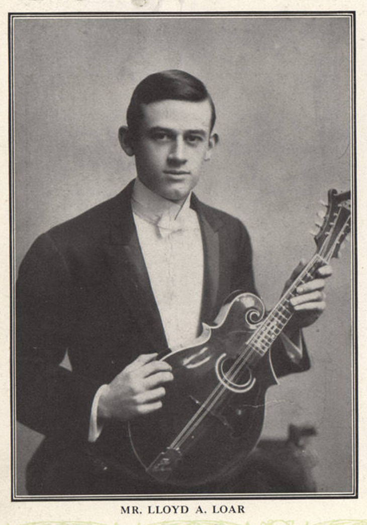 Photo of Lloyd Loar holding a Gibson F2 mandolin, from the 1911 brochure for the Fisher Shipp Concert Company. This photo was reused by the company over the years and may date earlier than the 1911 brochure. The brochure was dated by comparing the covers between the site this image originated (The University of Iowa) and a newspaper clipping from The King City Times (King City, Missouri) 18 Aug 1911, Fri • Page 1, Also the photo is shown in 1911 Gibson Magazine at this address: When comparing the names on the brochure (Fisher Shipp, Lloyd Loar, Louis G Karnes, Etta Goode Heacocke) a date of September 1908 was arrived at, from this article: Those names only appeared together in 1908. The brochure cover was printed in the newspaper, allowing it to be dated. Every brochure at the University of Iowa has a different cover. They all contain this photo.